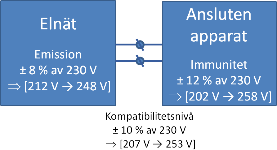 Network and connected apparatus with voltage variations as example of electromagnetic compatibility [in Swedish]